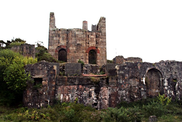 The Engine House at Wheal Basset Stamps Looking up from the floor of the Vanner House you can see the engine house which contained two 30 inch engines to power the machinery here.